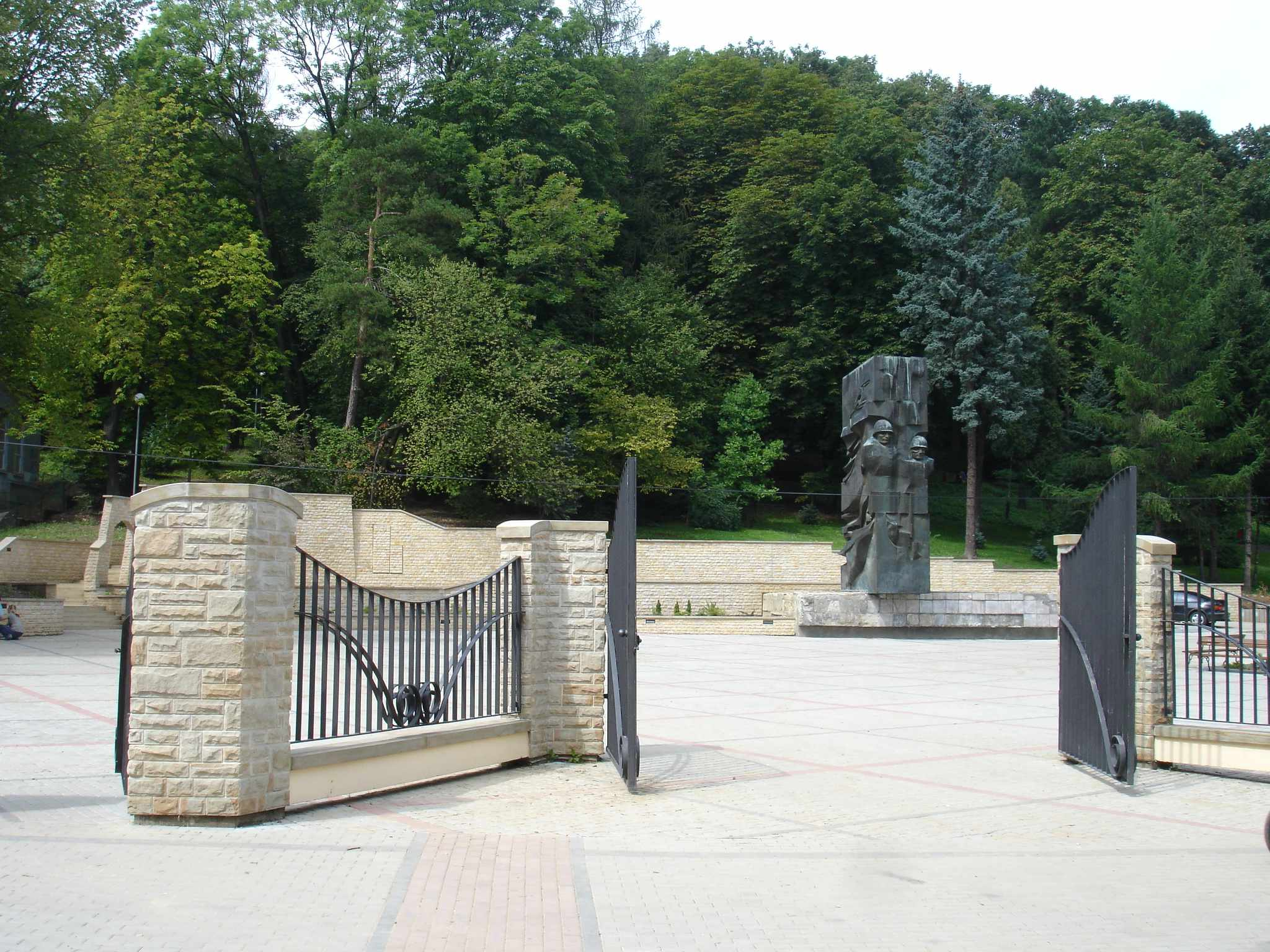 Public park of Sanok.